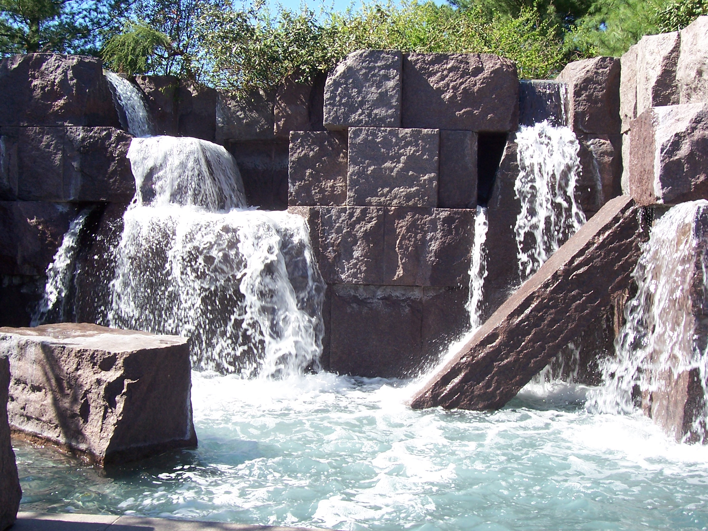 Taken by AndyZ in the Franklin Delano Roosevelt Memorial, a picture of the small manmade waterfalls of the memorial.